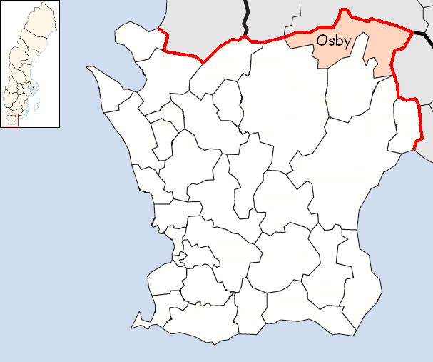 Osby Municipality in Scania, Sweden Designed by me. Mere outlines are a PD source from